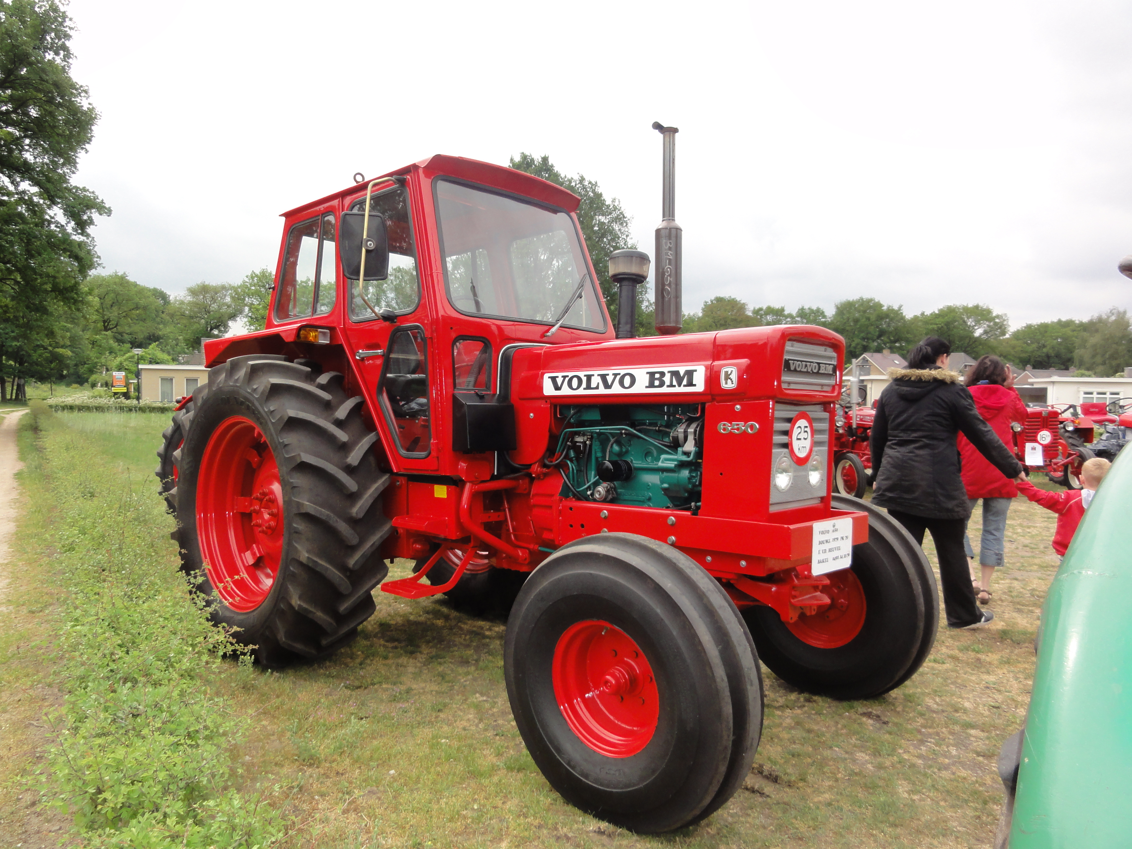 Bakel, tractorshow, Volvo BM 650